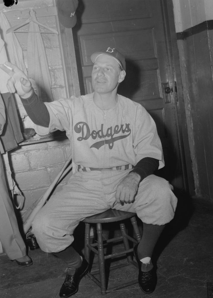 We see the player baseball Brooklyn Dodgers Leo Durocher.